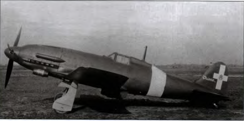 The 2nd Macchi C.205N prototype